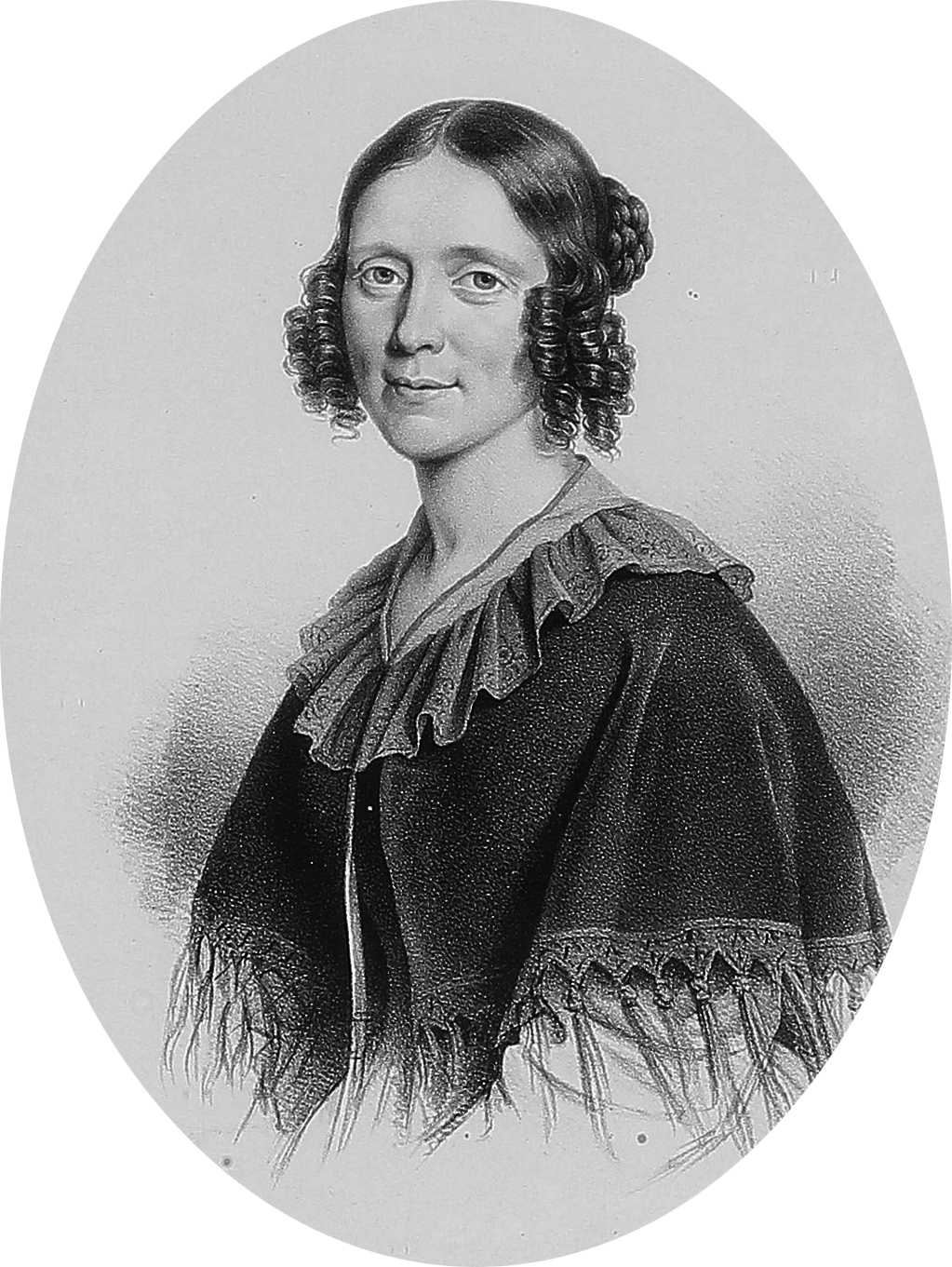 Anna Nielsen 19th century